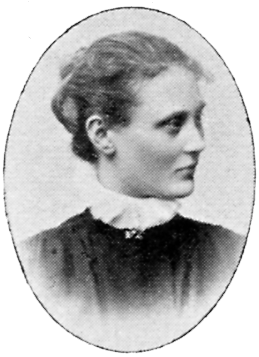 Image scanned from the book "Svenskt Porträttgalleri XX - Arkitekter, Bildhuggare, Målare m.fl. " ("Swedish Portrait Gallery XX - Architects, Sculptors, Painters, ") published 1901